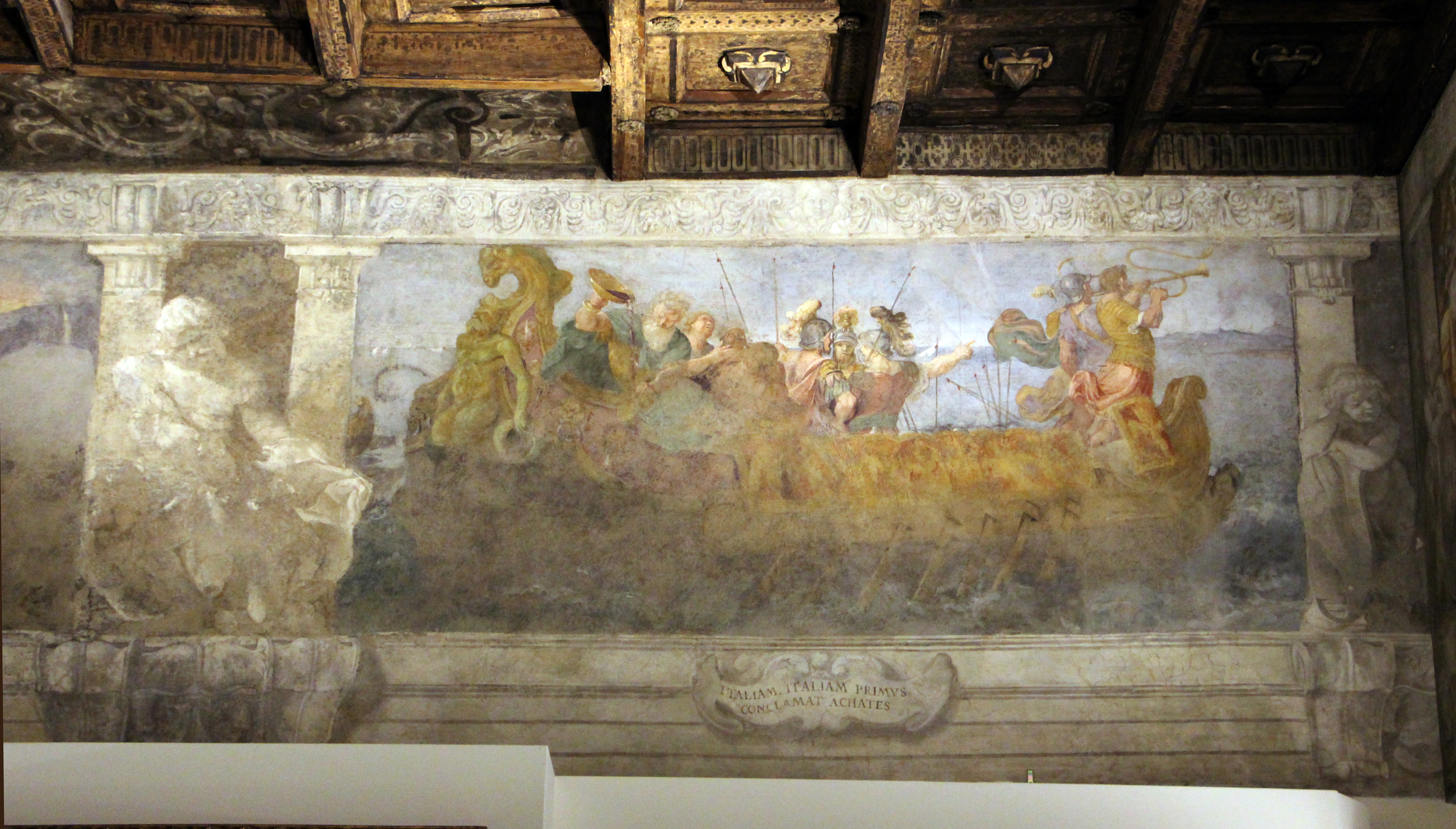 Frieze of Aeneas by the Carracci family